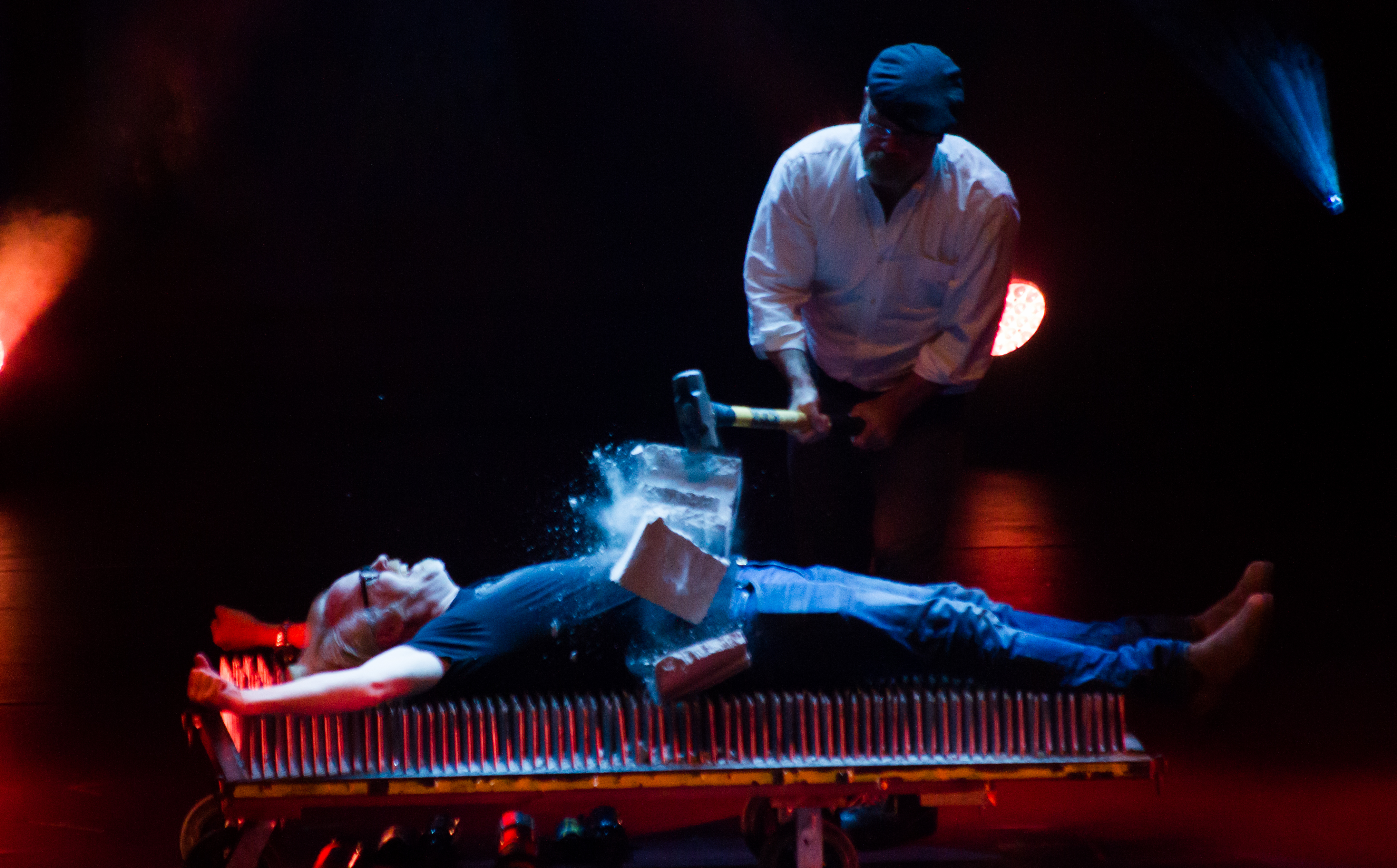 Stars from Discovery Channel's hit show Mythbusters Adam Savage and Jamie Hyneman host Jamie and Adam Unleashed, a show celebrating the pairs 14 years on the show. The performance took place Nov. 30 in the Stephens Auditorium.